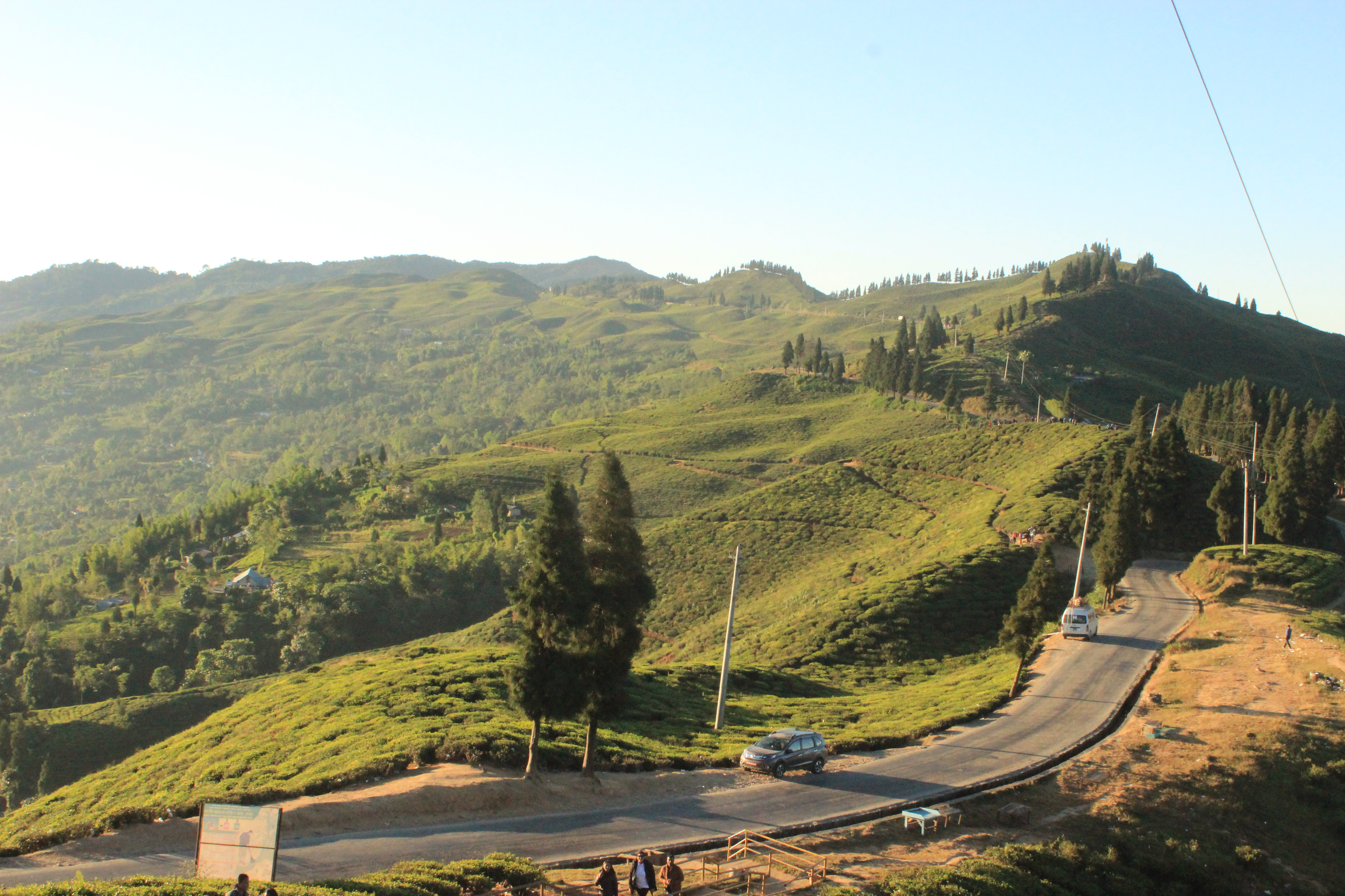 The first tea garden Kanyam, Ilam.